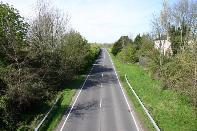 Steyning Bypass A283 - northwards